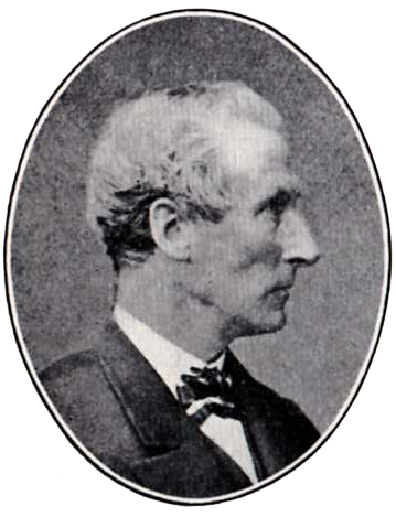 Photo of American artist Samuel Stillman Osgood.